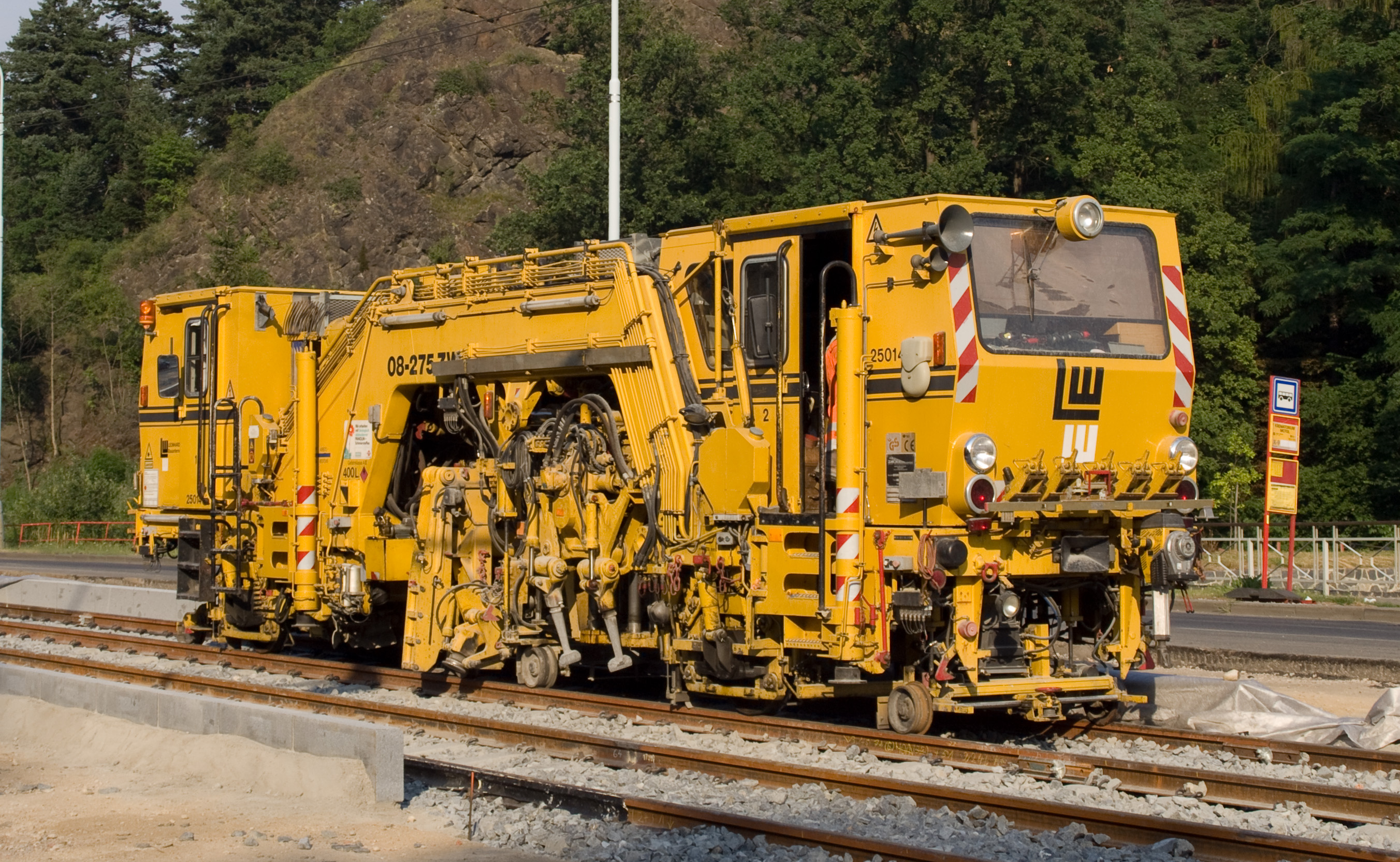 Plasser & Theurer 08-275 ZW of Leonhard Weiss near Krematorium Motol, reconstruction of tram track Anděl – Sídliště Řepy